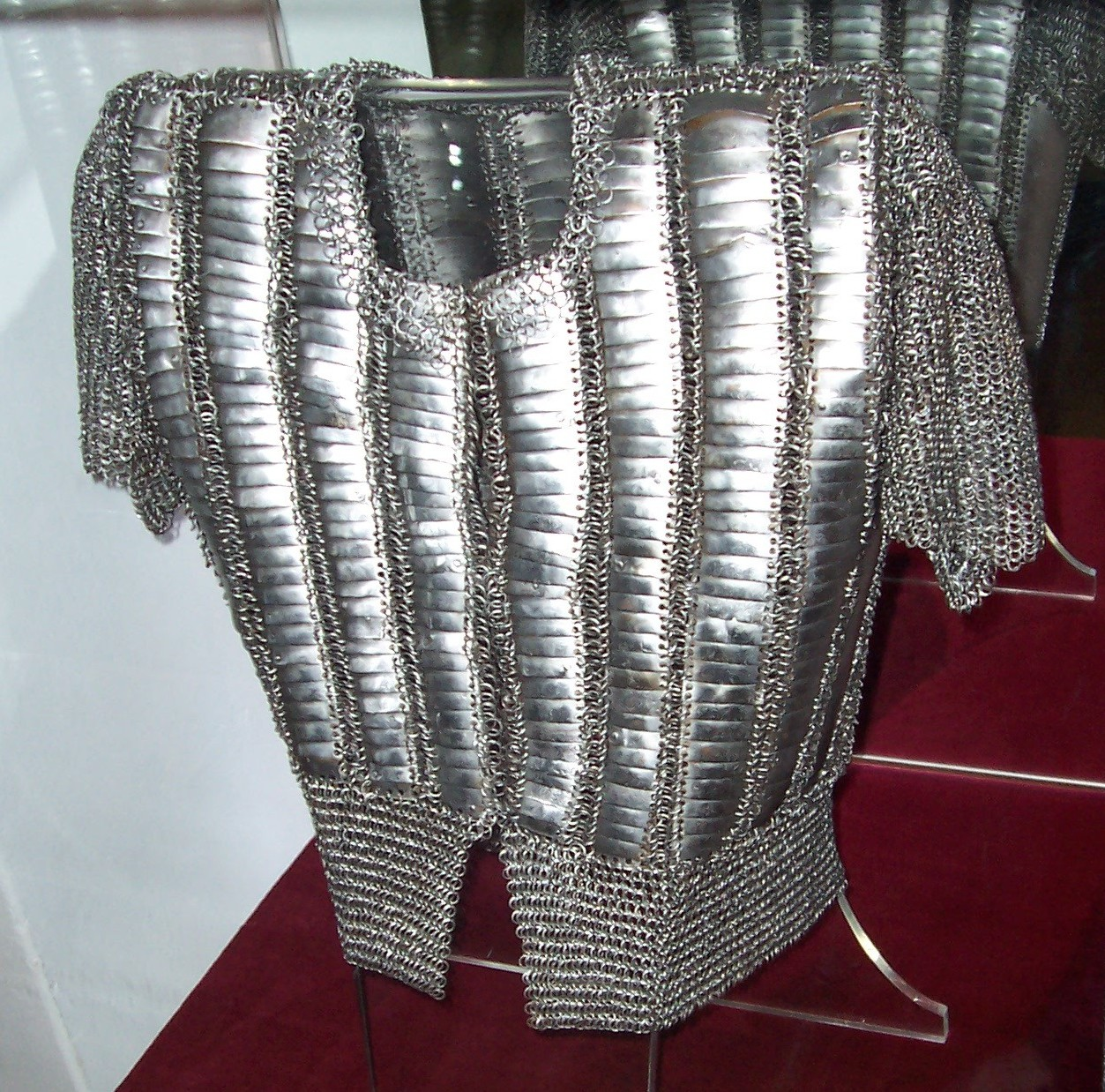 Reconstruction of a Polish "bechter", made ​​of rectangular iron plates connected together by iron rings, this is a form of mail and plate armor.